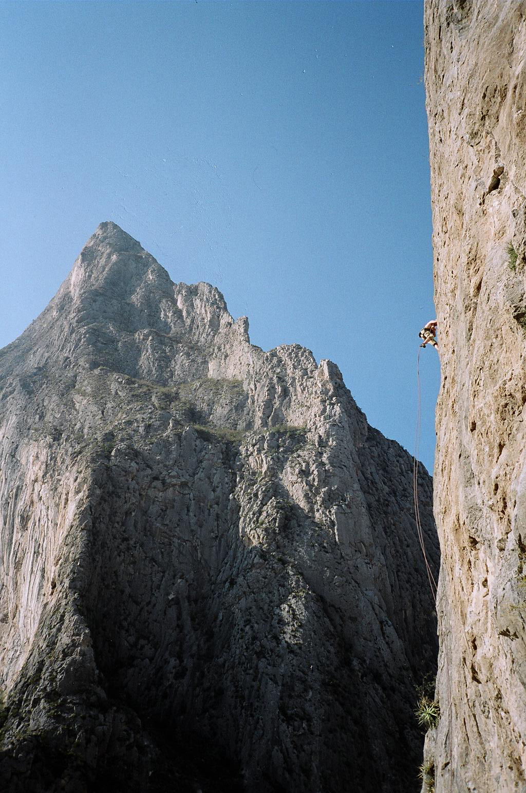 I (seb951) took this picture on a trip to Mexico in winter 05. It shows El Torro in the background and a climber on the Mota Wall in the foreground. Typical view when you are climbing at the Potrero.